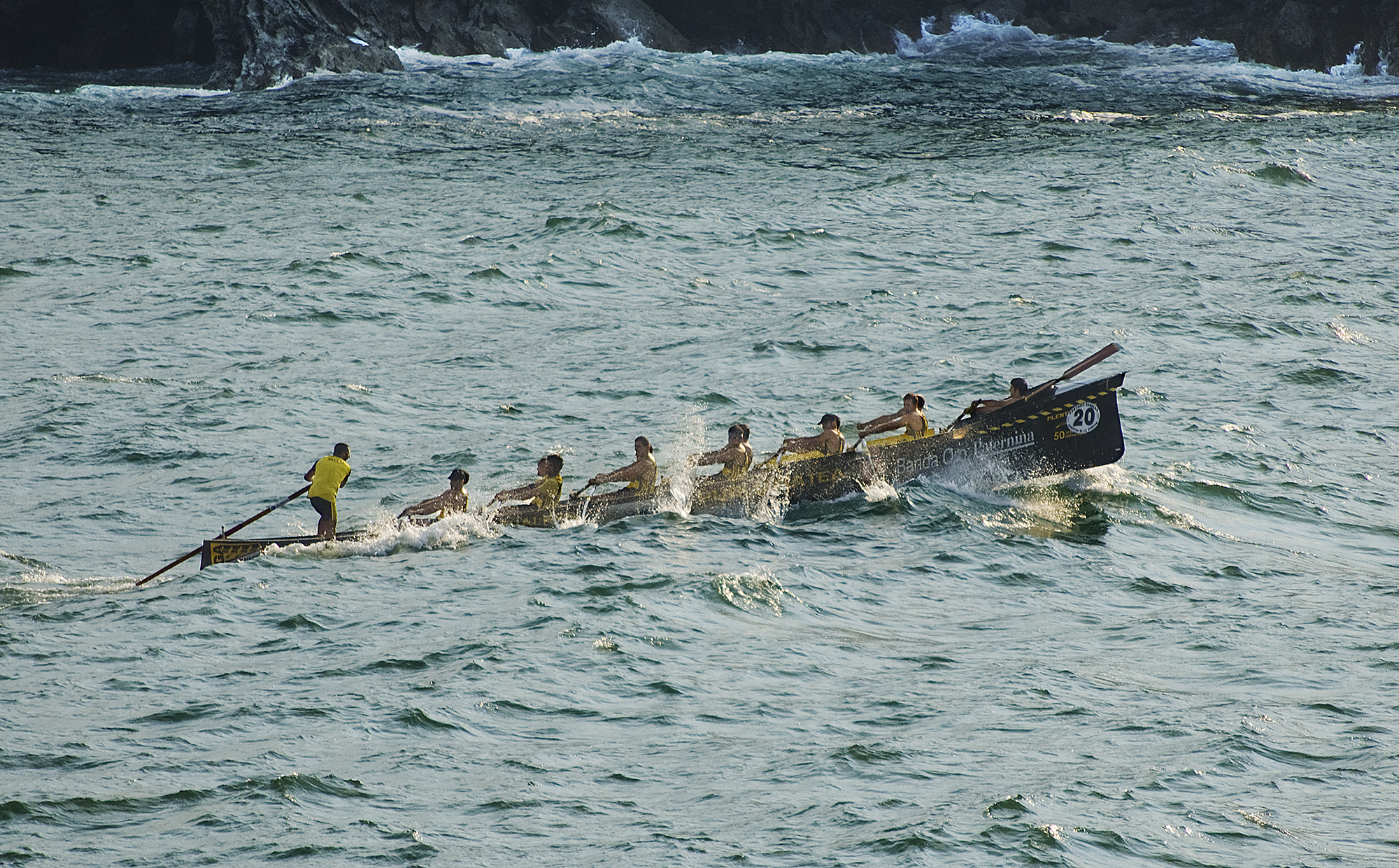 Classification run for the Flag of La Concha competition. The seven best times classificated for the race held on the first two weekends of September 2007. This team is Arkote Arraun Taldea, from Plentzia, which with a time of 21'54.68" did 13th.